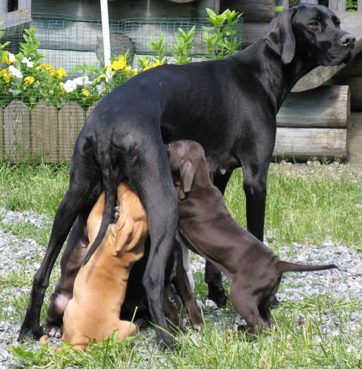 ENGLISH POINTER CLAYPOND'S LITTER 2008